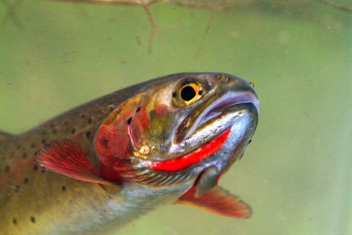 Head and throat of Yellowstone Cutthroat trout Oncorhynchus clarki bouvieri